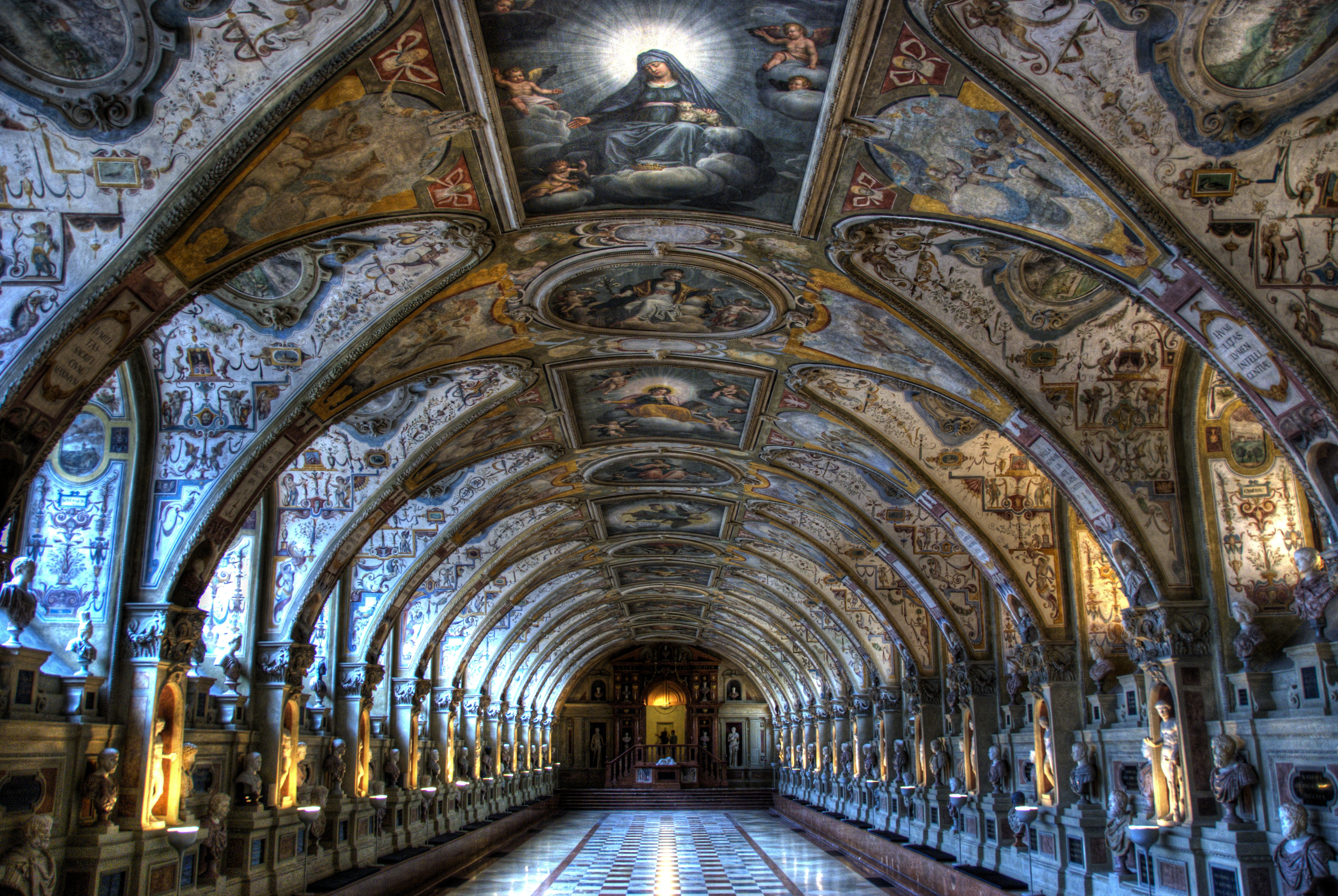 View on Antiquarium, Residenz, Munich, Bavaria